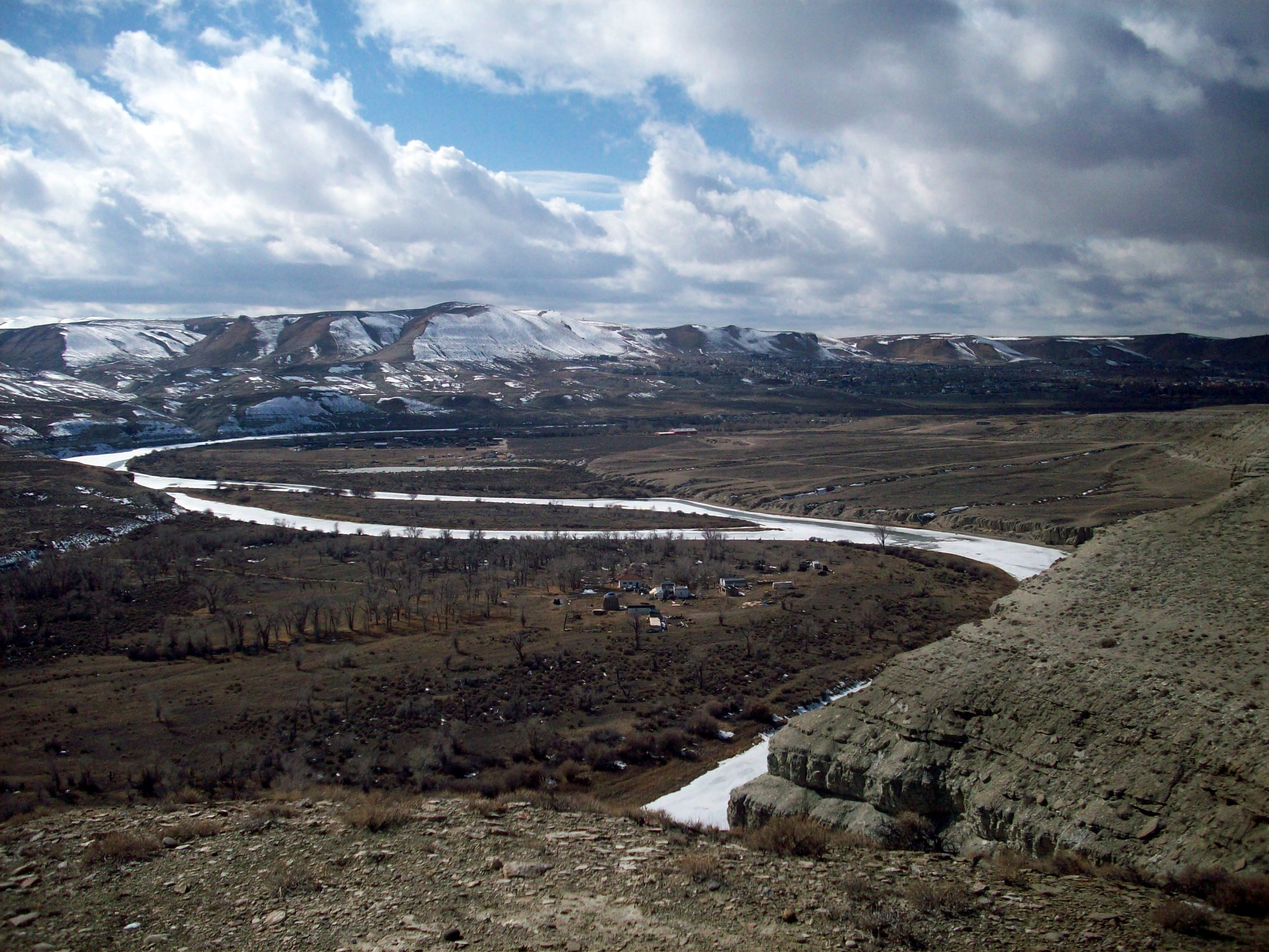 Green River, Wyoming from just outside of Scott's Bottom.